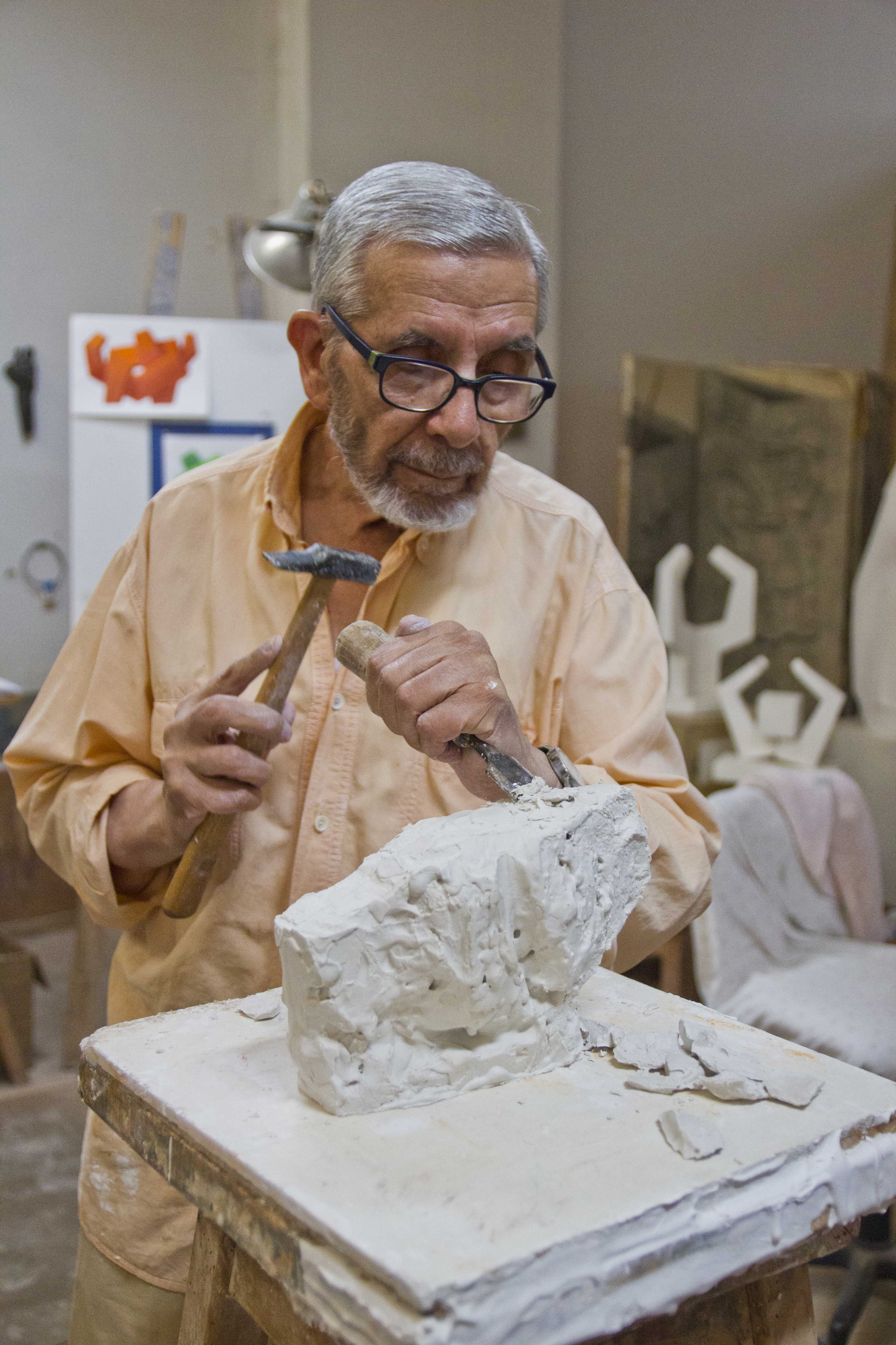 Crespo Rivera at his studio